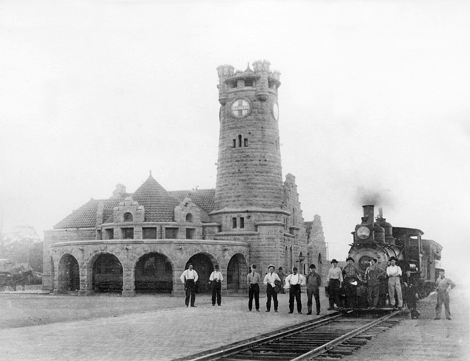 Atchison, Topeka and Santa Fe Railway depot in Shawnee.